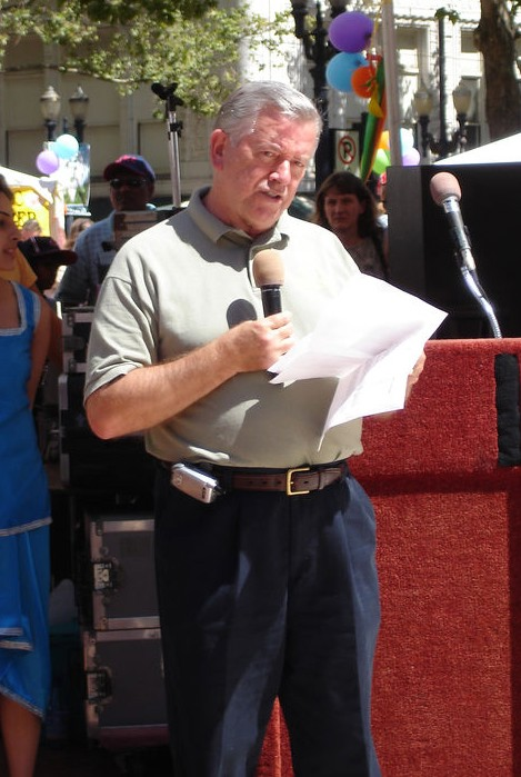 Portland, Oregon Mayor Tom Potter